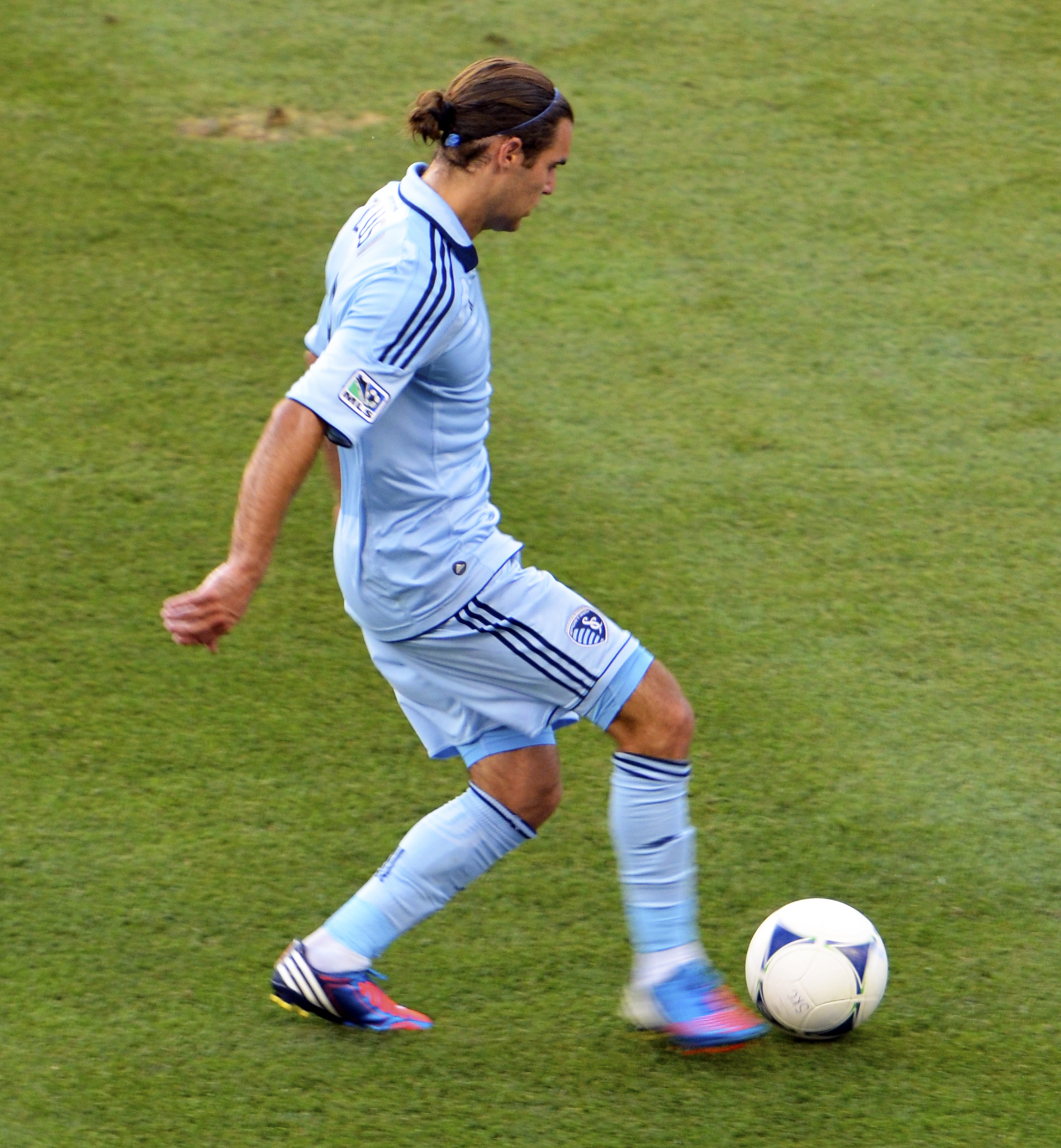 Graham Zusi, a midfielder for Sporting KC, makes a pass against the Houston Dynamo's on July 7th, 2012 at Livestrong Sporting Park, in Kansas City, Kansas.